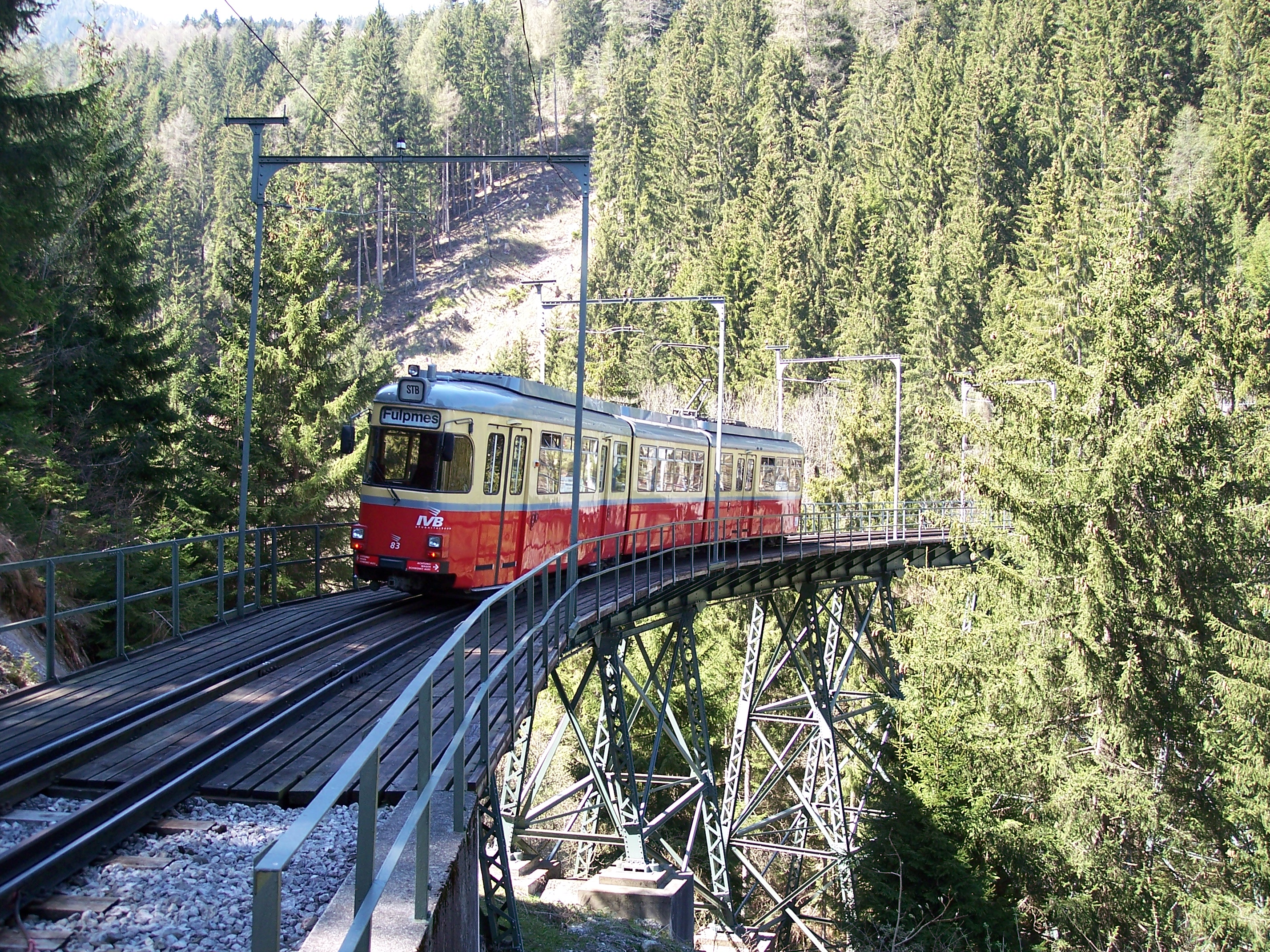 Articulated car 83 of Innsbruck tramways, Austria, ex-Hagen (Germany) doing a Stubaitalbahn train to Fulpmes